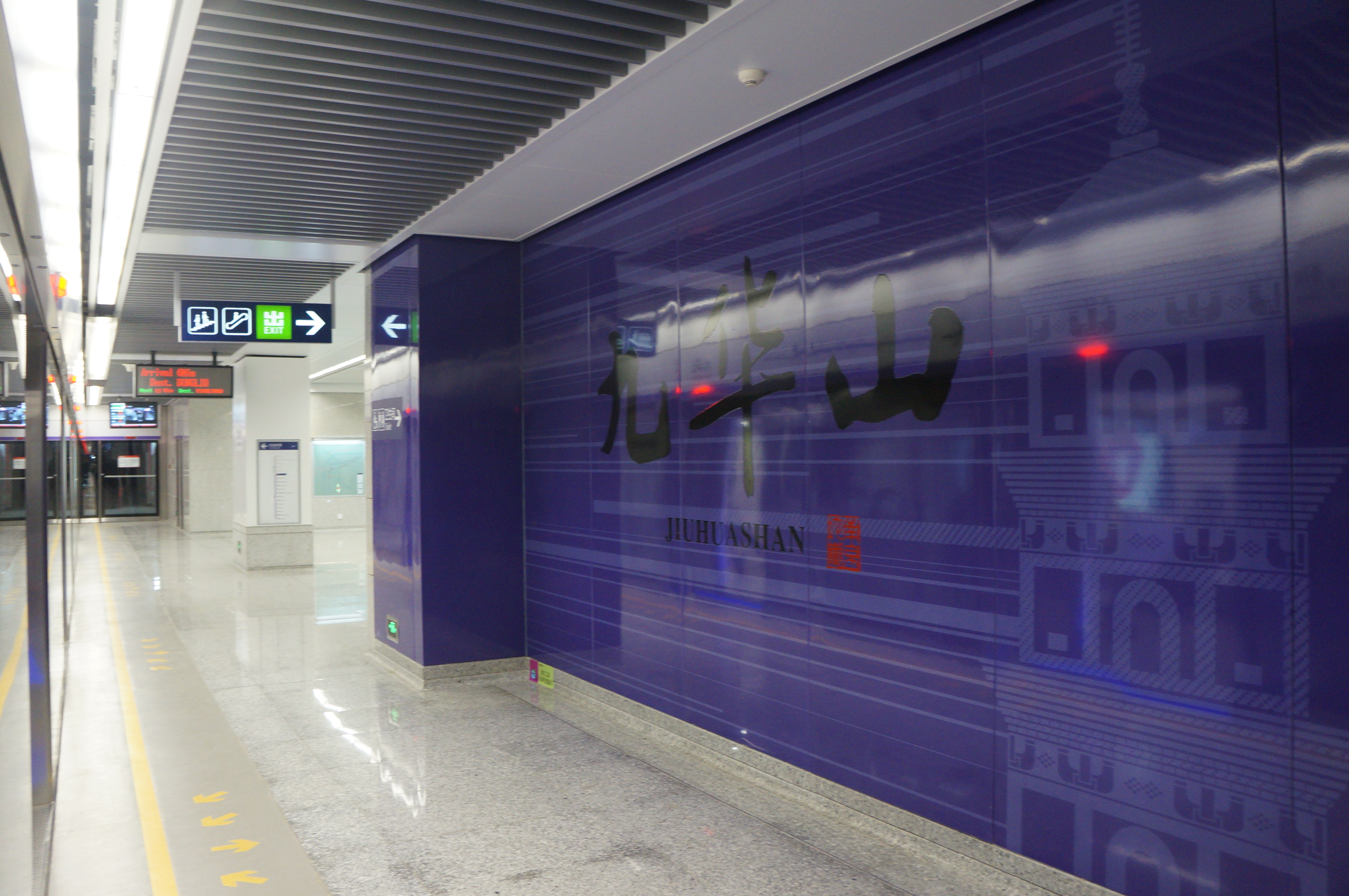 201704 Jiuhuashan Station